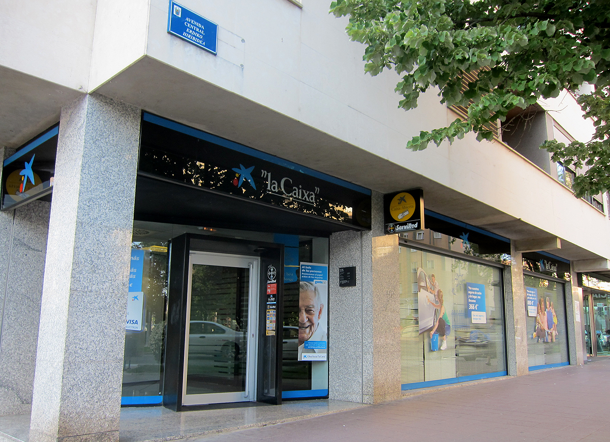 CaixaBank's ("La Caixa") spanish bank office at Barañáin, Navarra.